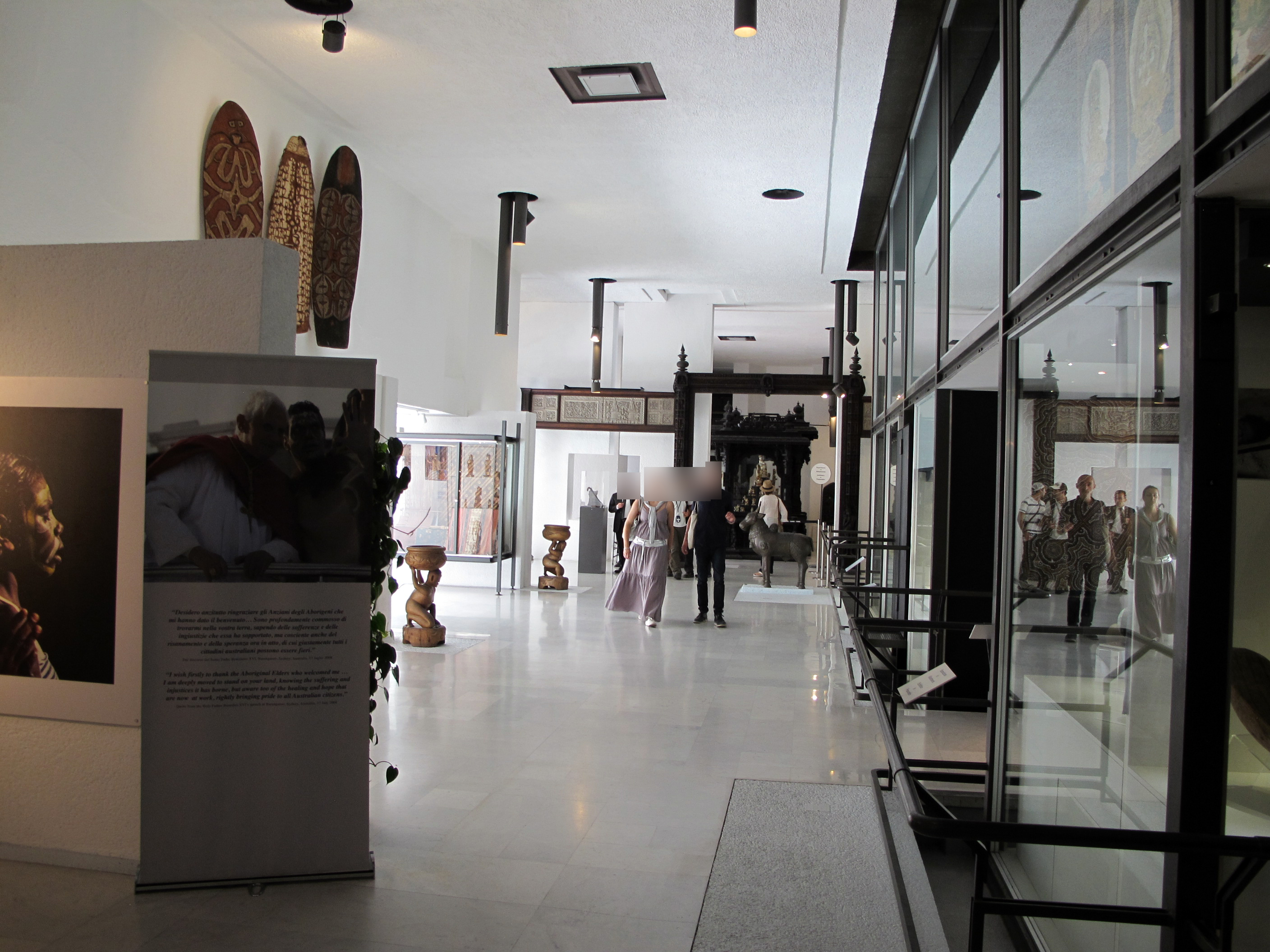 Ethnological Musem of Missions